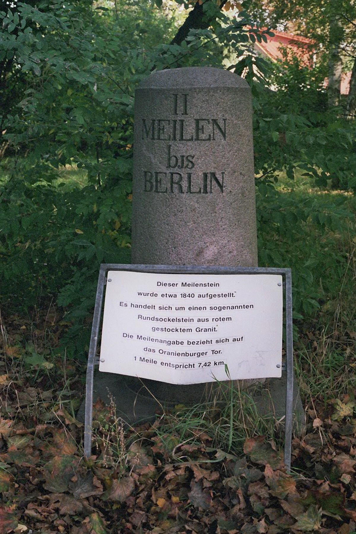 Inscription: II Meilen bis Berlin, i.e. 2 Prussian miles to Berlin (equalling 9.361 statute miles).